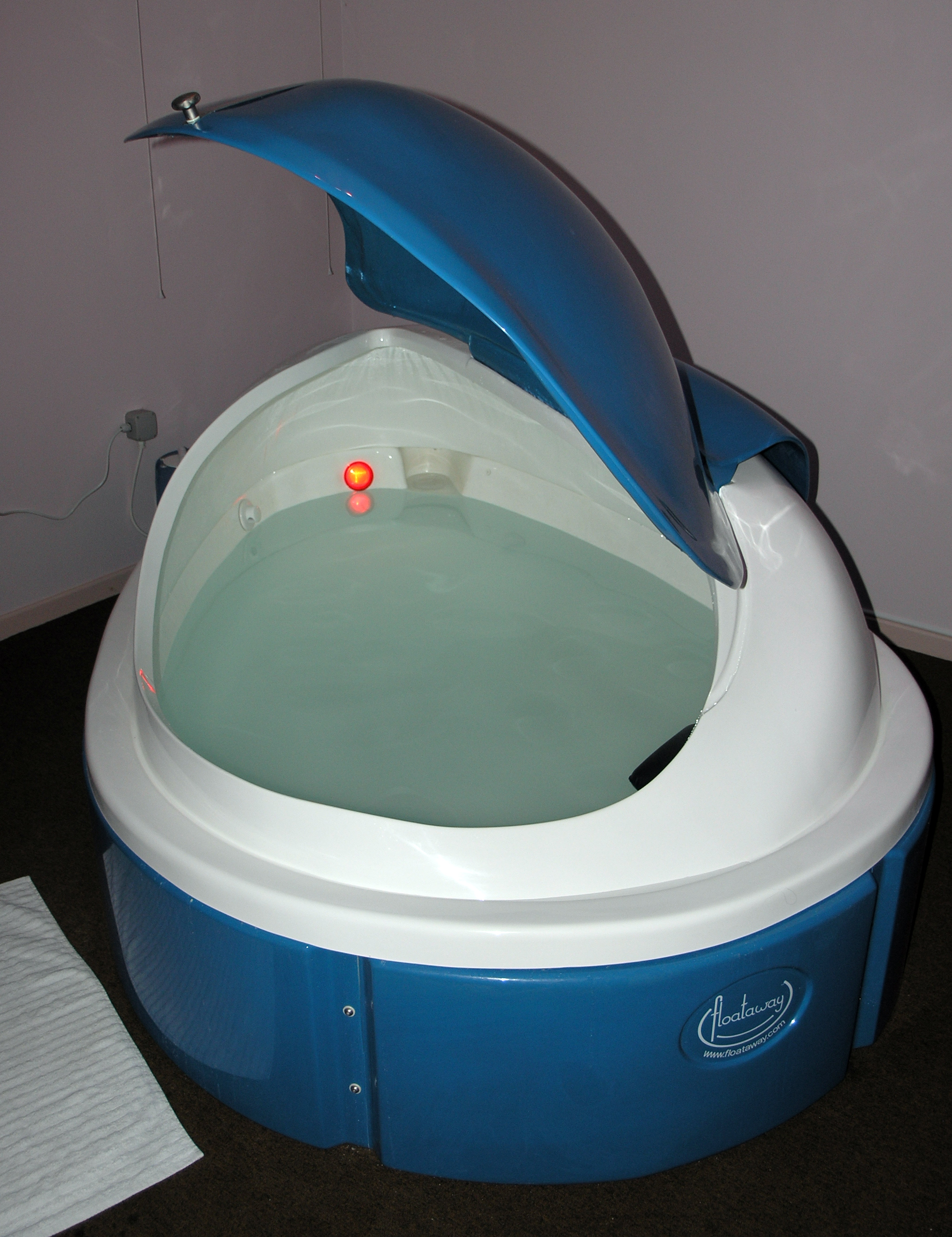 Photo of a flotation tank taken in "phloat" in Derry, Northern Ireland.